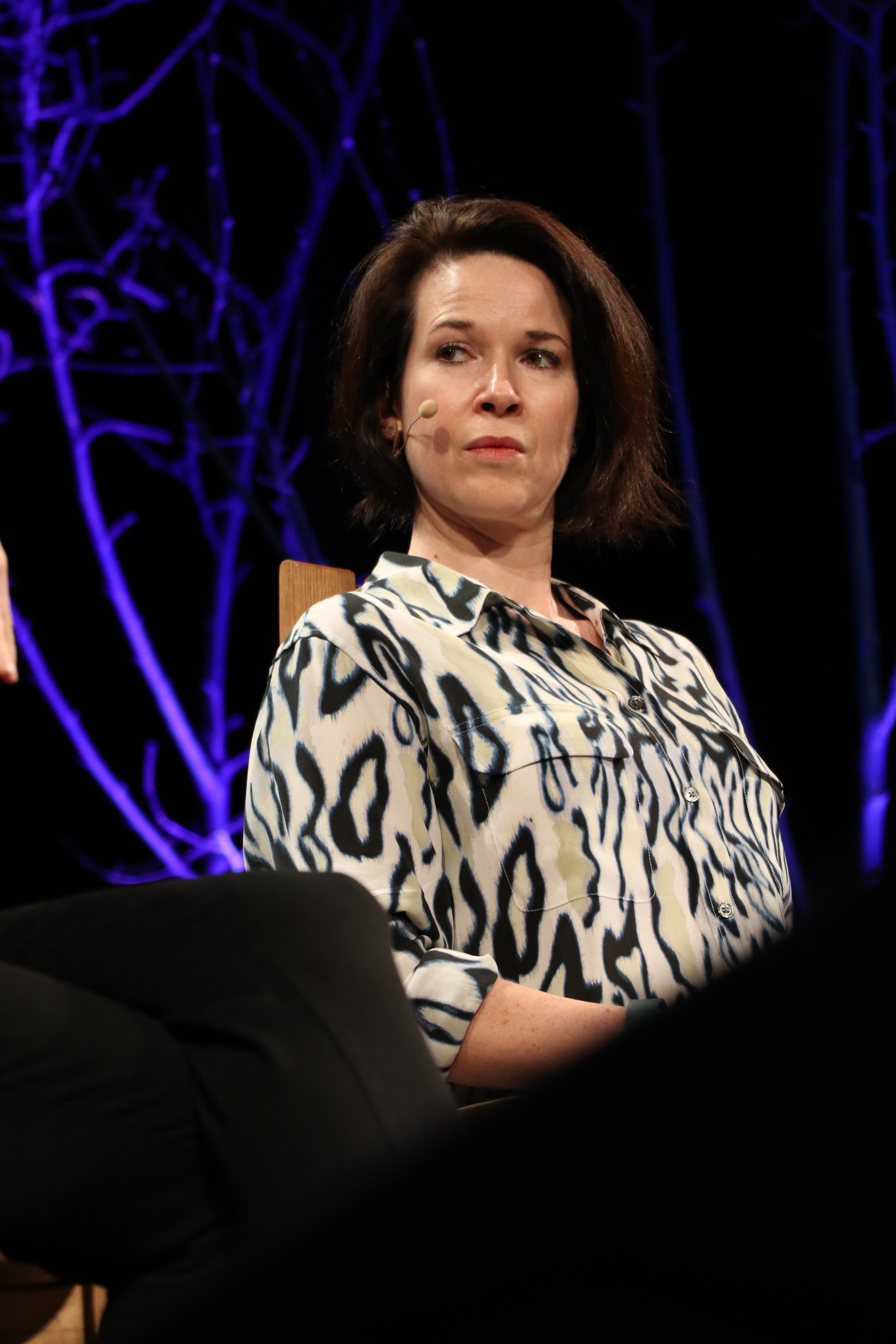 Hay Festival 2016 - Stephanie Merritt